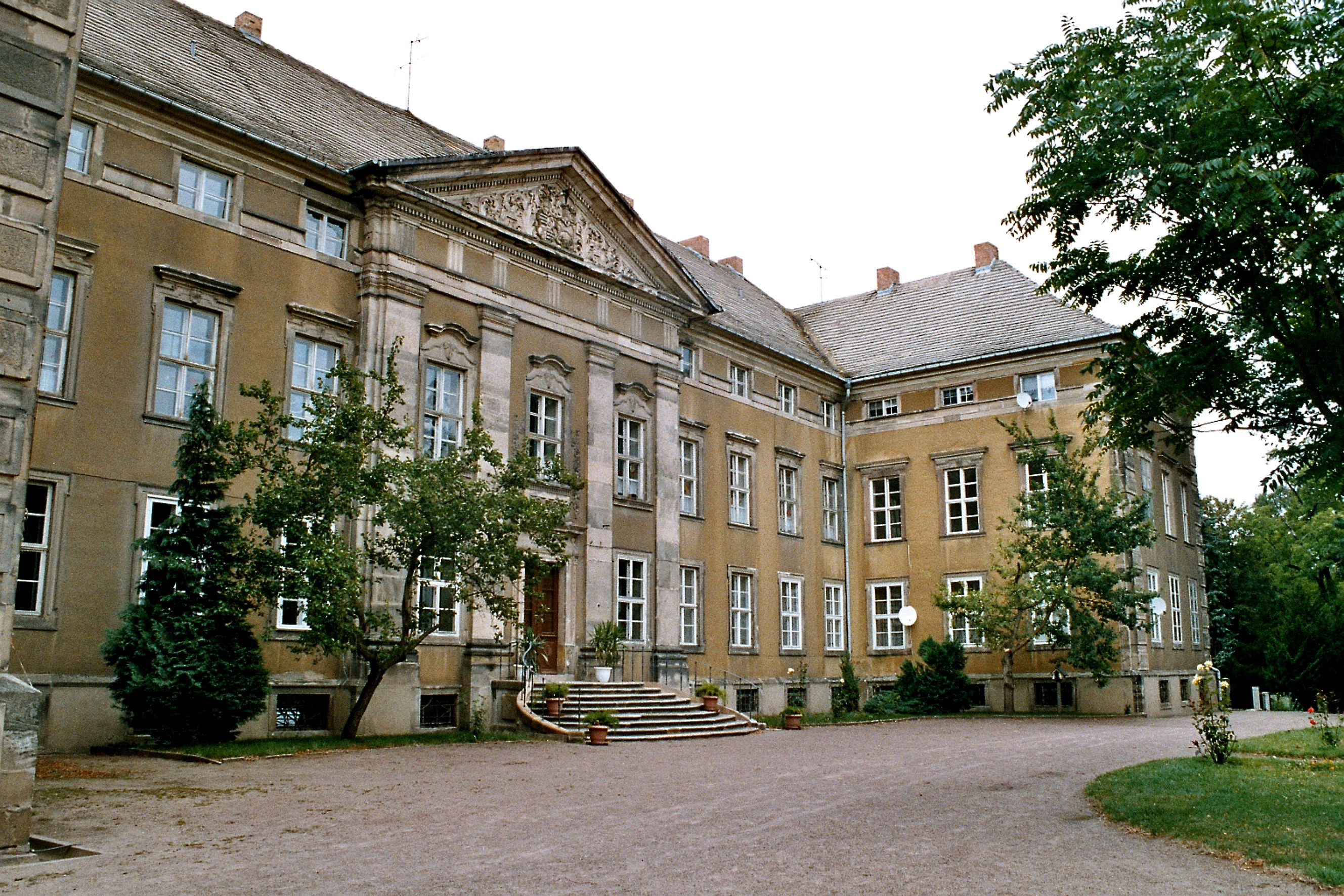 Ostrau (Petersberg), the château